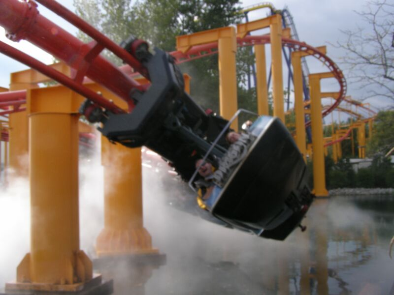 Iron Dragon Roller Coaster at Cedar Point, Ohio